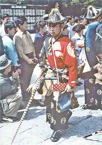 Yabusame Japanese archery, Kamakura, Kanagawa Japan I took this photograph and contribute it to the public domain.